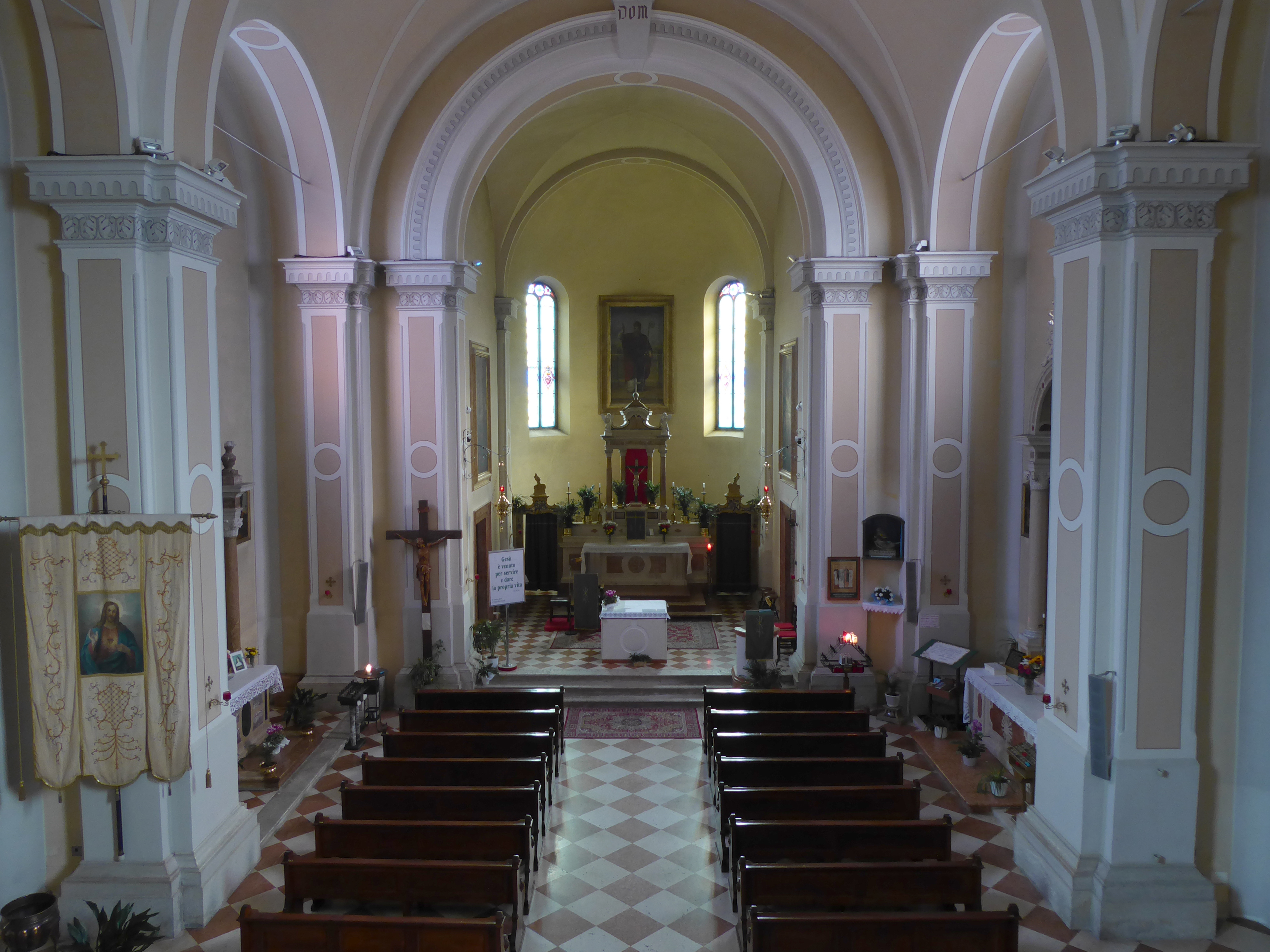 Saint Nicholas church in Ville (Giovo, Trentino, Italy)